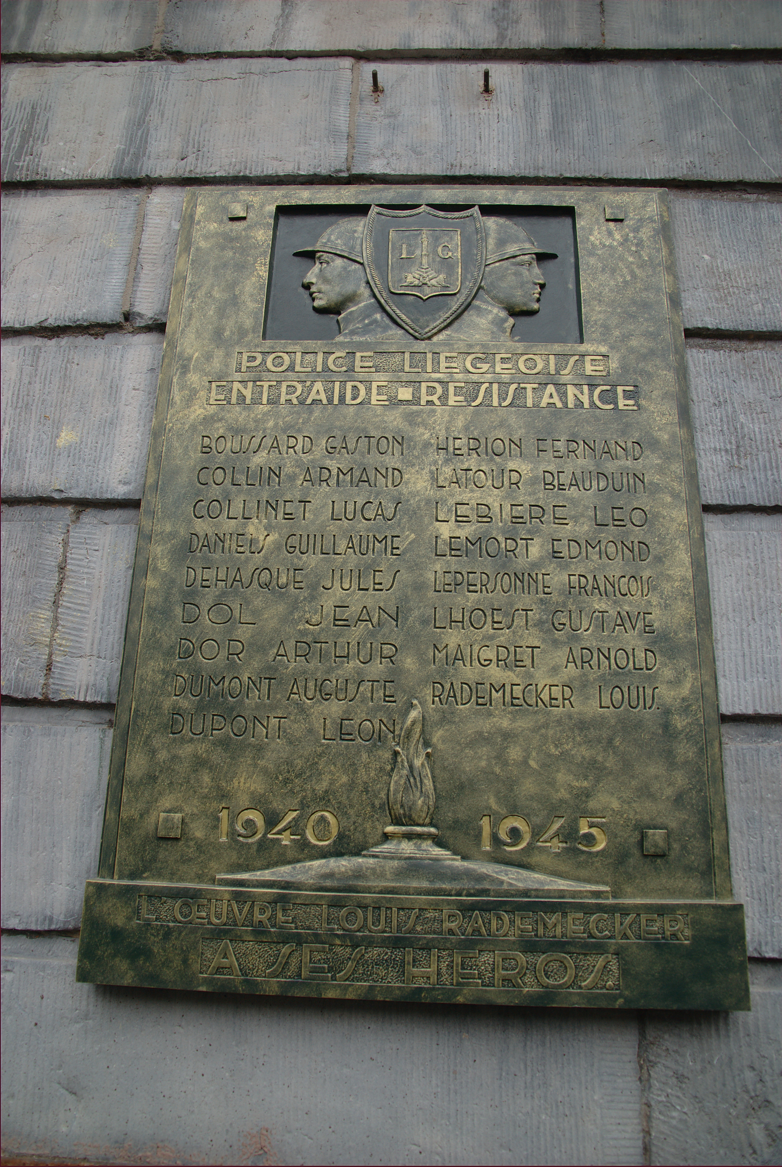 Liège in Belgium "legend of Maigret origine".